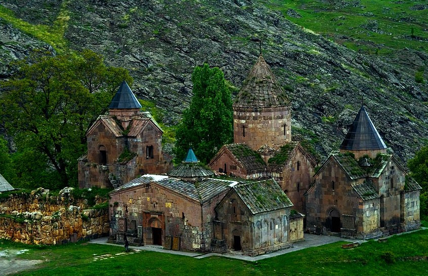 Goshavank, Armenia